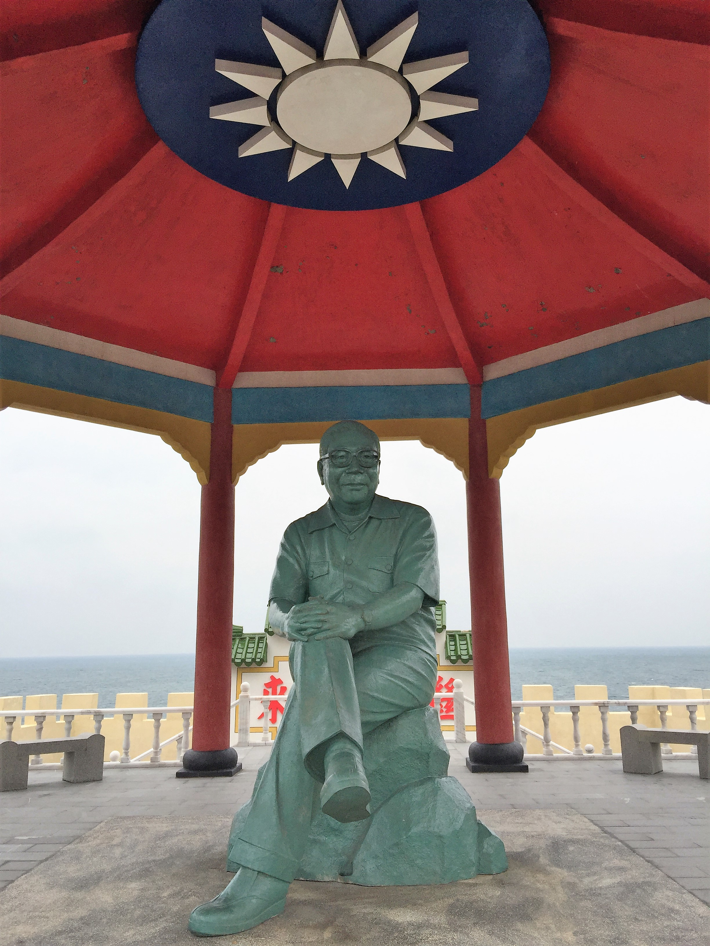 Statue of President Chiang Ching-kuo at Dongyin, Lienchiang, Fukien (Fujian), Taiwan (ROC)